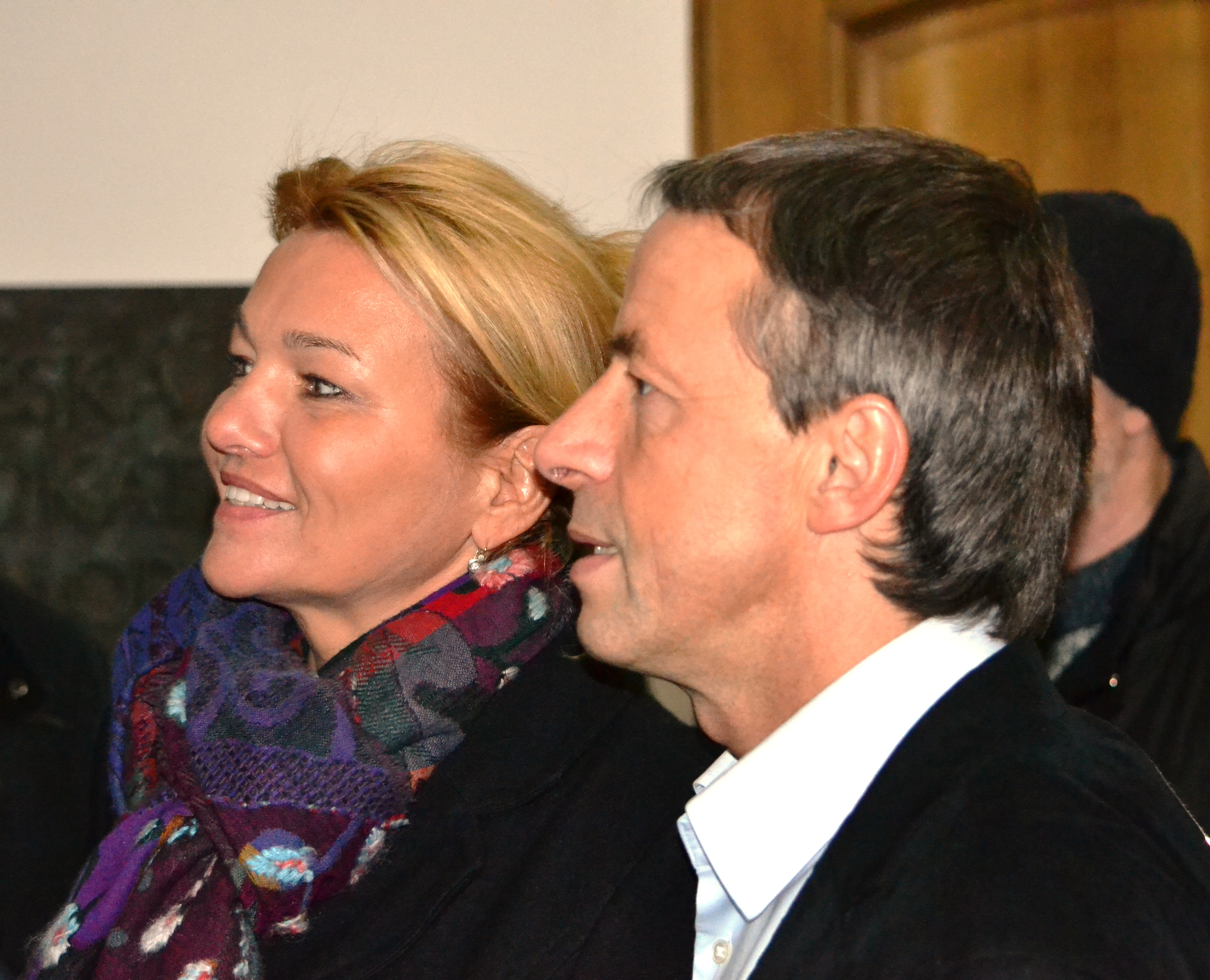 Pavel Bém, Former Mayor of Prague, with his wife